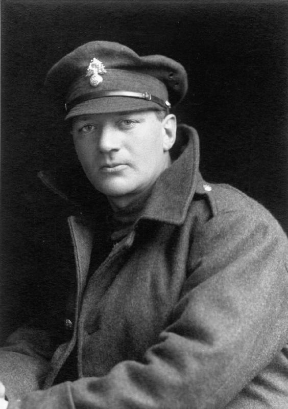 38 Battalion, Royal Fusiliers Jacob Epstein (1880-1959) was born in New York, United States of America, of Polish parents. After moving to London in 1905, he became a naturalised British citizen in December 1910. Epstein was conscripted in autumn 1917 as a private in the Jewish 38 Battalion, Royal Fusiliers. However, following a breakdown, he was discharged in 1918 without having left England. Epstein was considered for an appointment as an official war artist, but this was never formalised. Faces of the First World War Find out more about this First World War Centenary project at This image is from IWM Collections.